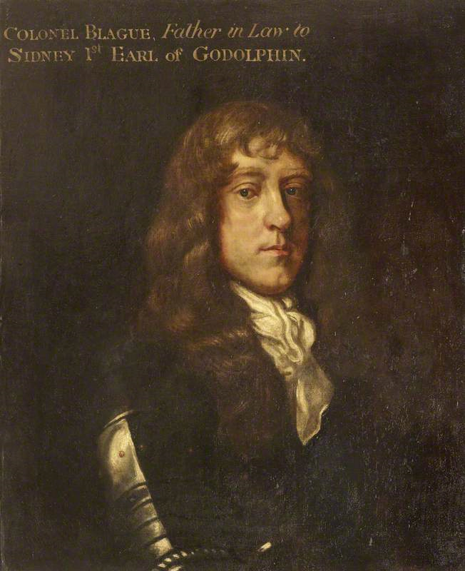 Colonel Thomas Blagge by English School now owned by UK national trust